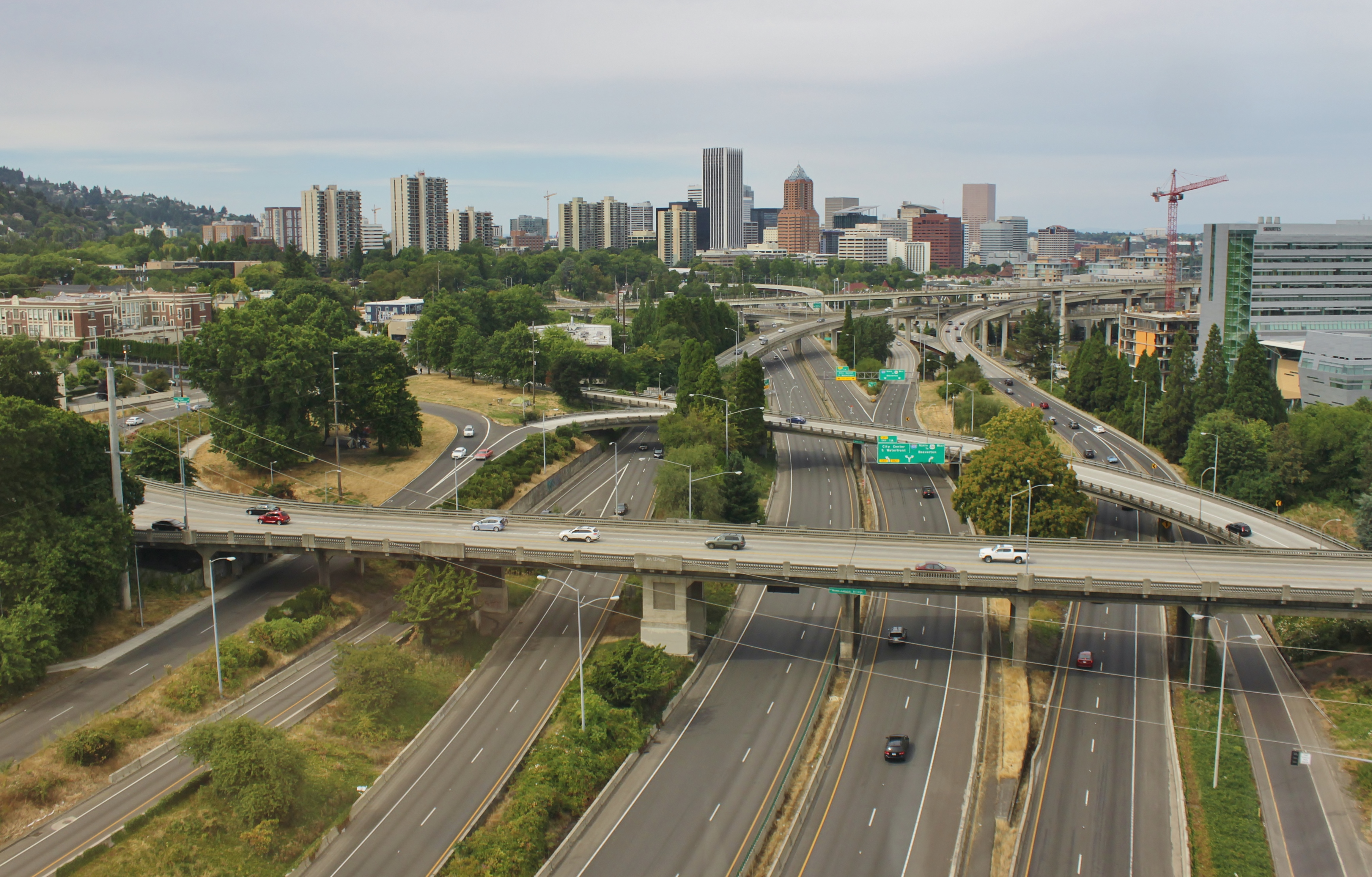 The Marquam Interchange, where Interstate 5, Interstate 405, U.S. Route 26, and Oregon Route 99W intersect, against the skyline of Downtown Portland, Oregon. Viewed from the Portland Aerial Tram.